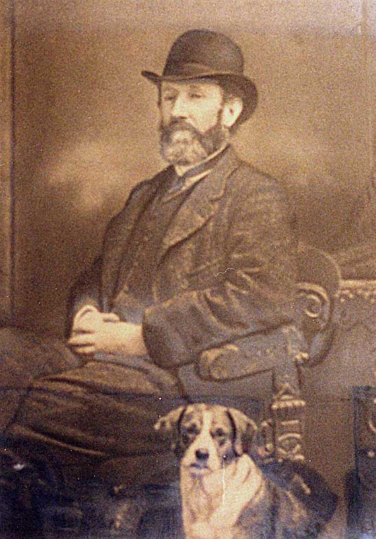 Photograph of Sir John Cowell-Stepney and his dog.